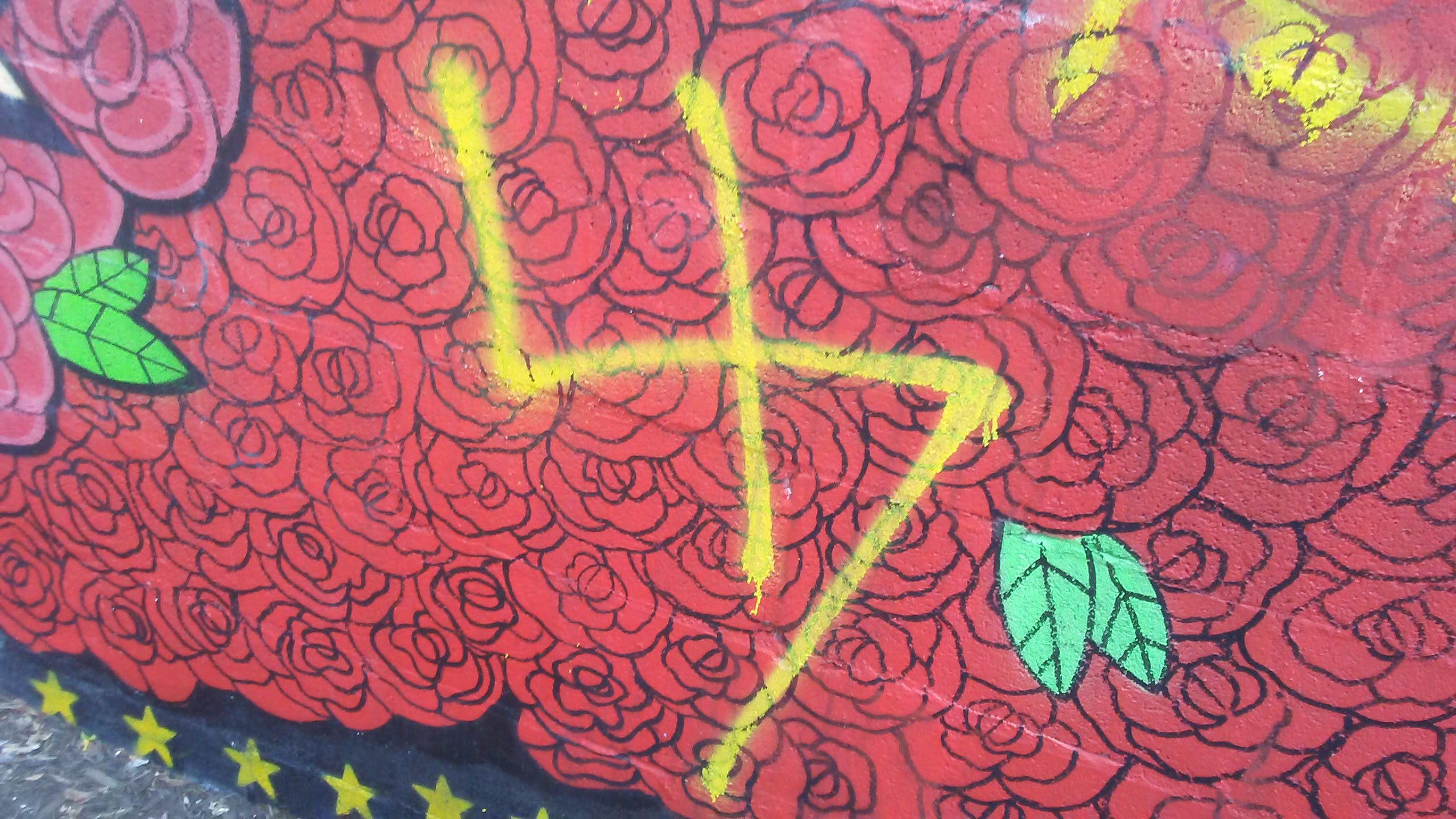 Closeup of Vandalism, Possible Nazi Rune